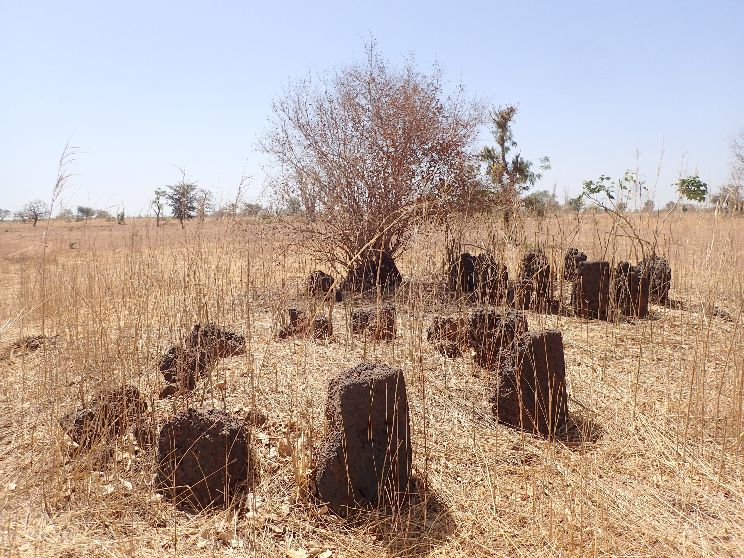 Stone circles 1 km north of Dialla Kouna village, Senegal, Kaolack province.